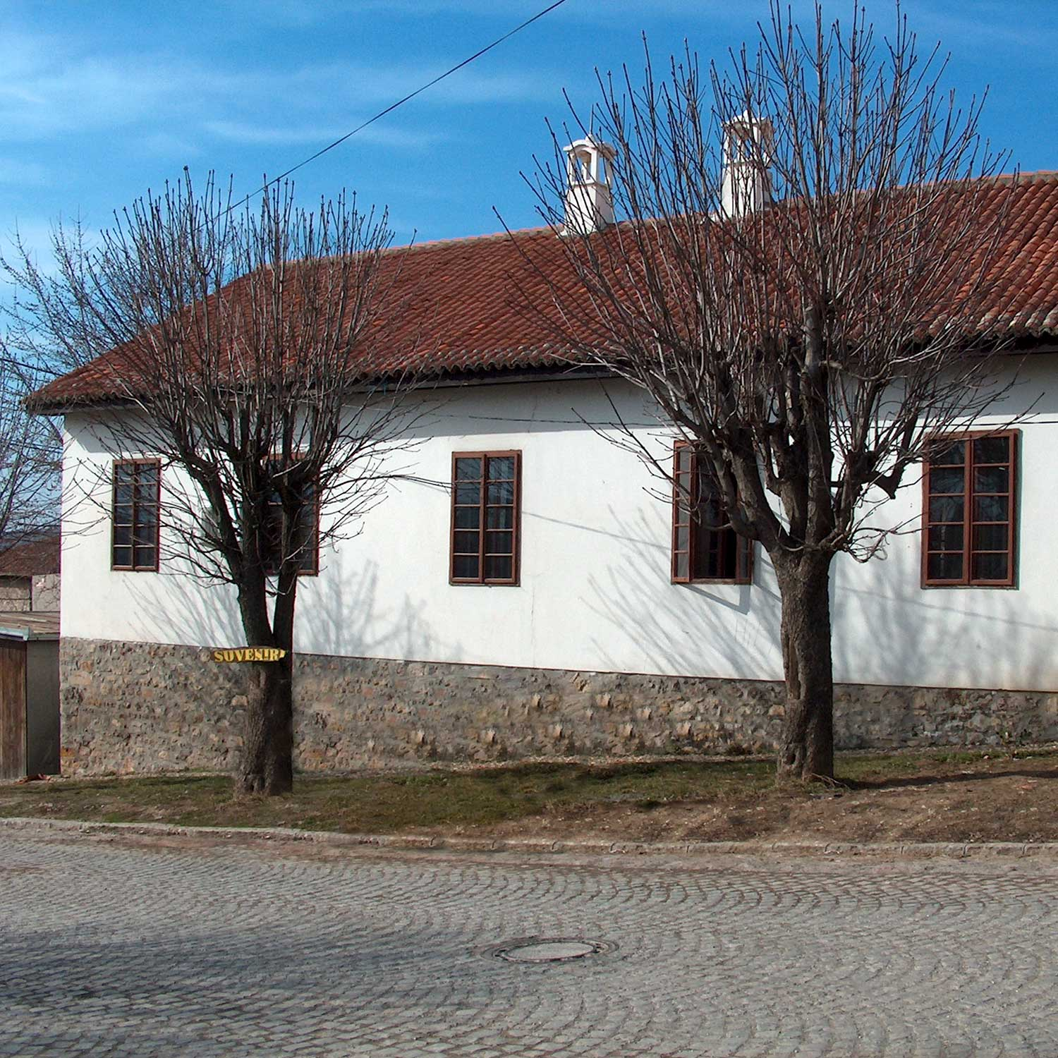 The building in street Surepova, number 1 in Topola